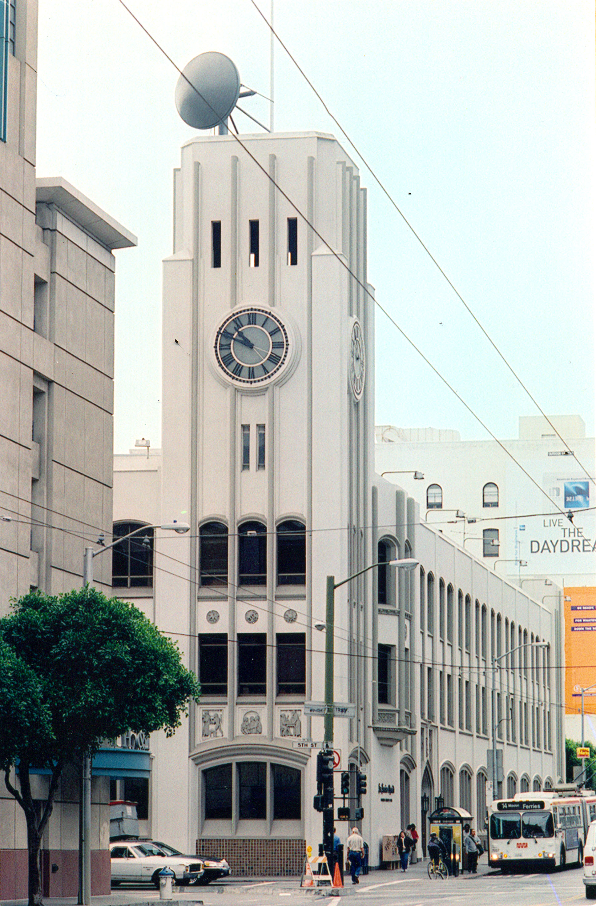 San Francisco Chronicle newspaper building at 901 Mission and 5th Streets in San Francisco. 1999 photograph by Nancy Wong